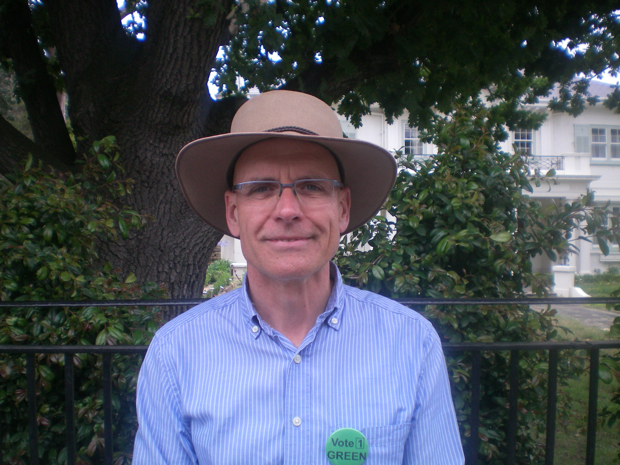 Clive Hamilton campaigning, during the 2009 Higgins by-election.